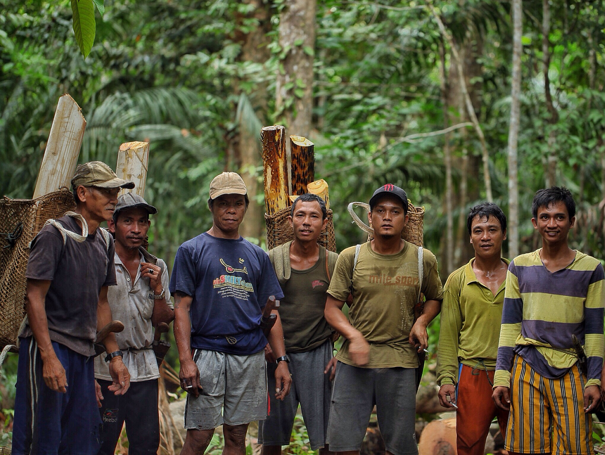 Sungai Utik is located in the north-west of Kapuas Hulu, roughly 75 km away from Putussibau. The longhouse of Sungai Utik is relatively old and quite big with large porches inside and outside. The inhabitants of Sungai Utik belong to the Iban tribe. An important fact about Sungai Utik is that the inhabitants preserve their forest and they do not have any ambitions to change this. They live with and in their environment without destroying it. In 2008 they received the Sus­tain­able For­est Man­age­ment Cer­ti­fi­ca­tion for Kam­pung Sun­gai Utik com­mu­nity.